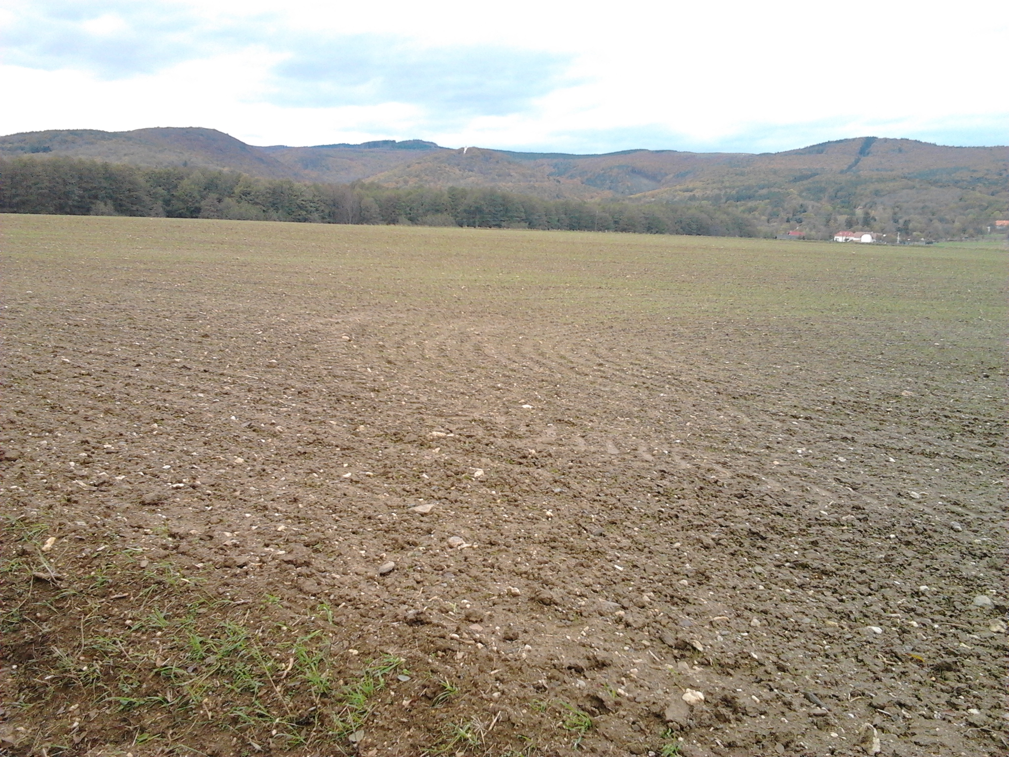 Focus on the "Velemi-mező" vineyard background of the St. Vitus mountain (589 m) in the chapel and the Kendal Mountain (726 m).